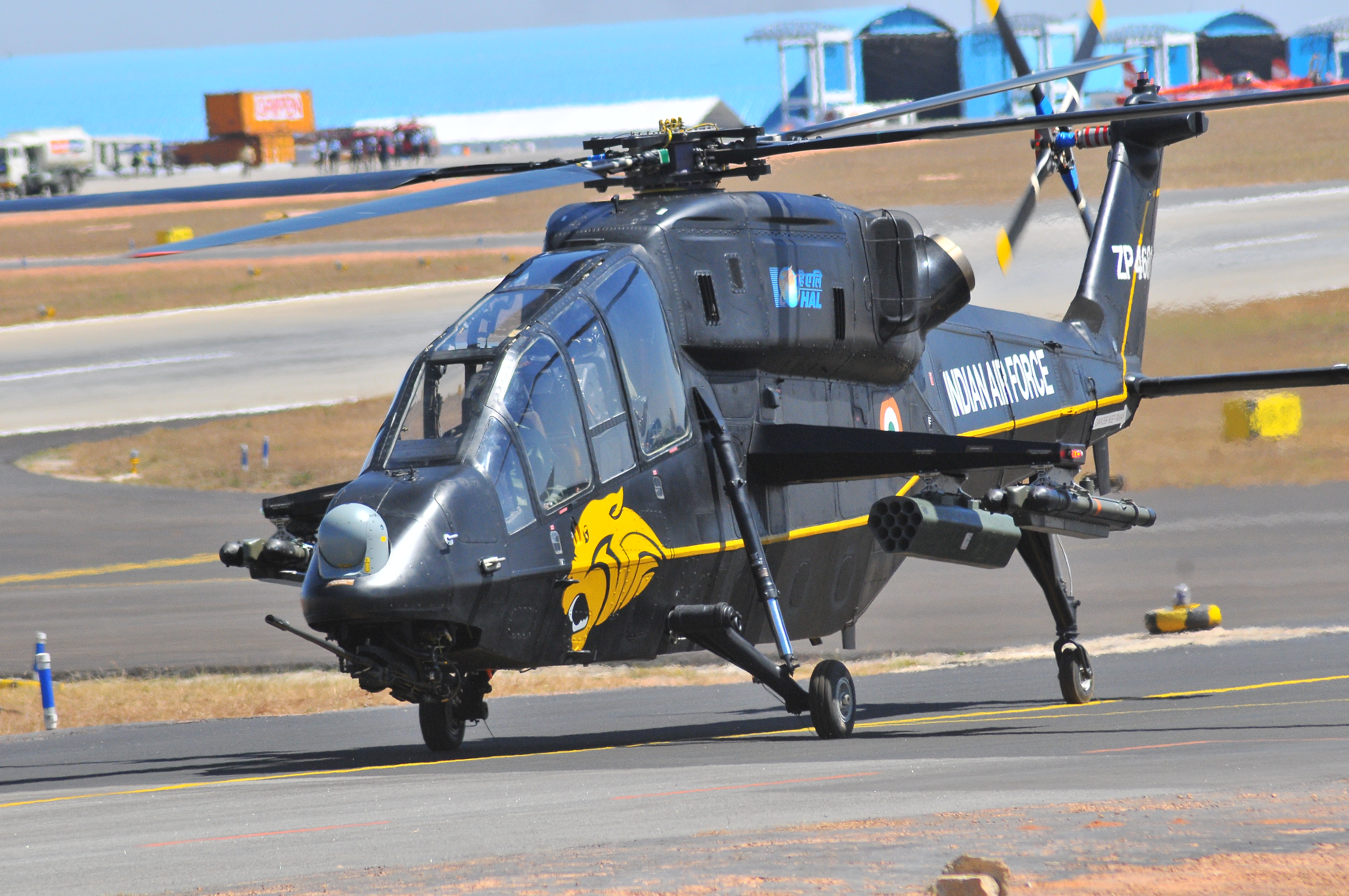 Aero india show 2011